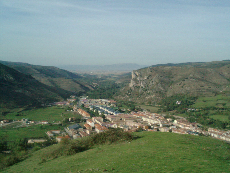 English=View of Ezcaray and part of the Oja valley, in La Rioja (Spain), from top of Santa Bárbara hill.